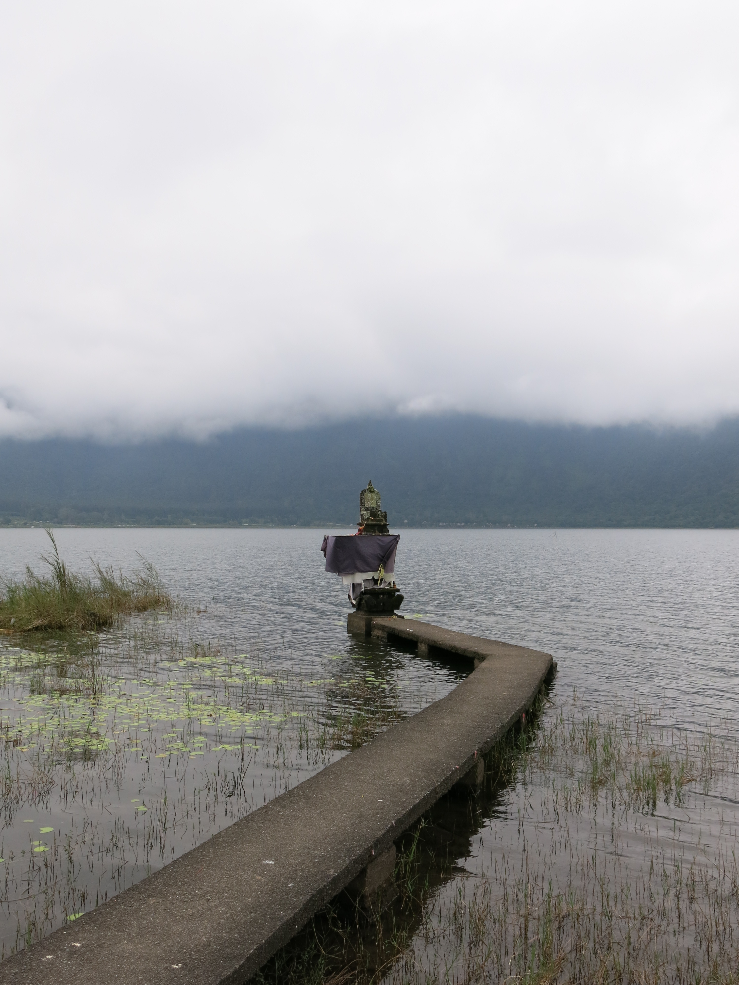 Pura Ulun Danu Bratan on Bali